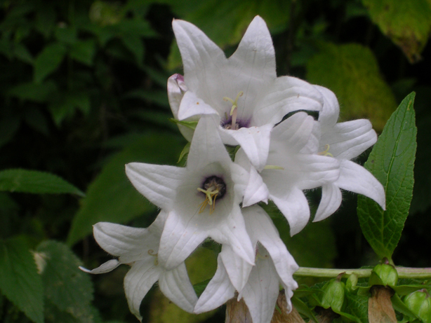 Campanula latifolia (Breitblatt-Glockenblume) at the Mullitbach near Virgen (Eastern Tyrol)